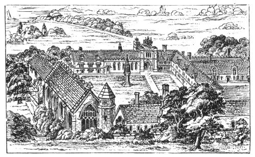 Line drawing of Bermondsey Abbey, England